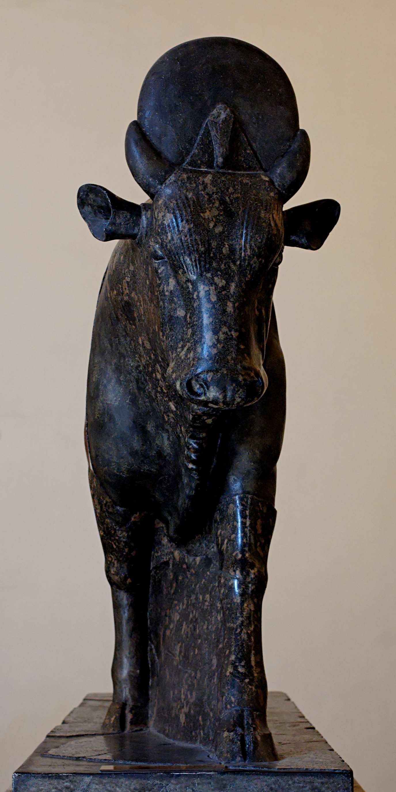 So-called “Brancaccio Bull”: the bull-god Apis holding the solar disk and the uraeus. Granodiorite, Egyptian artwork from the Ptolemaic Era (2nd century BC), brought to Rome in the Imperial Era.